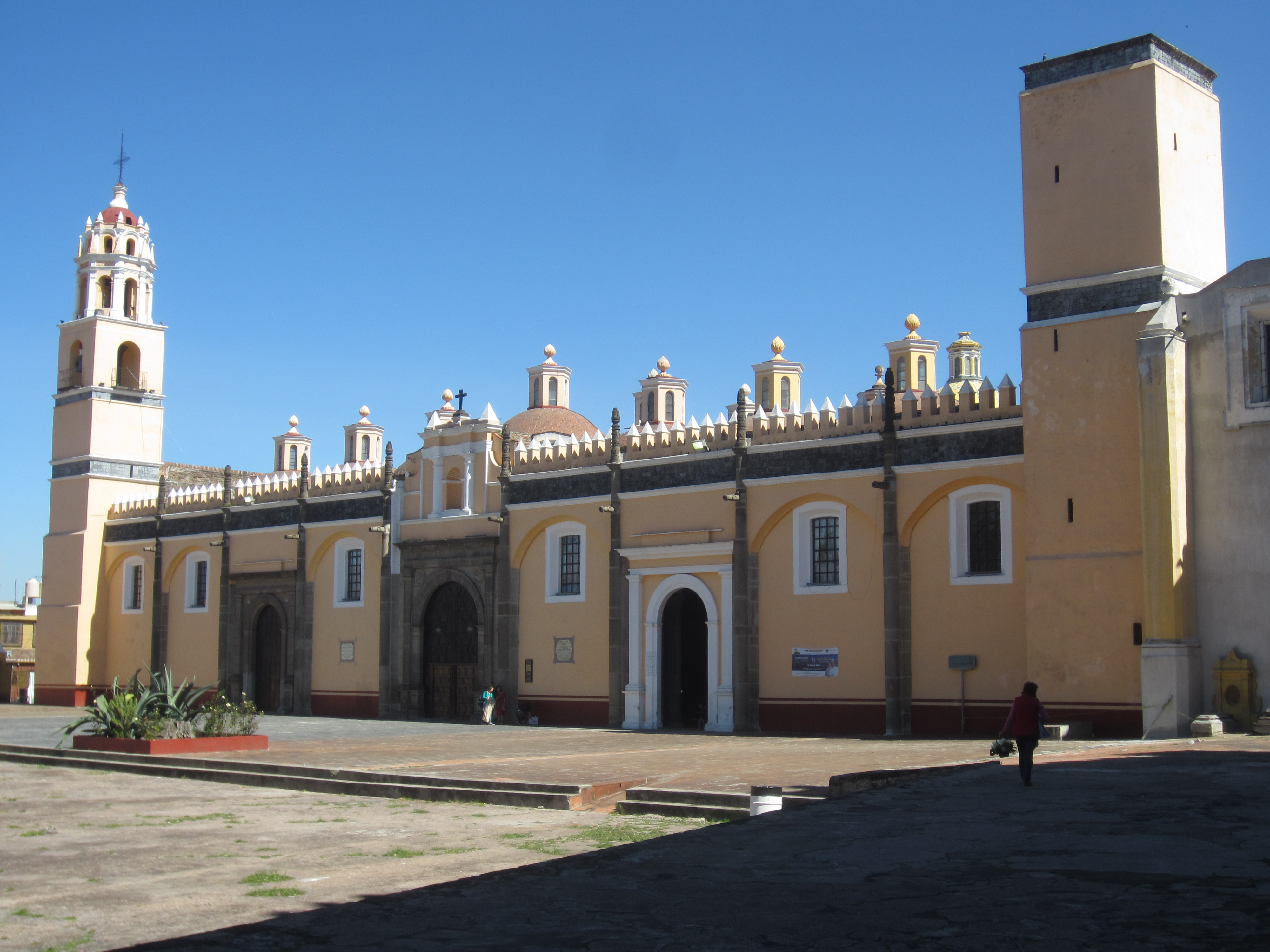 Cholula, Puebla, Mexico (2018)